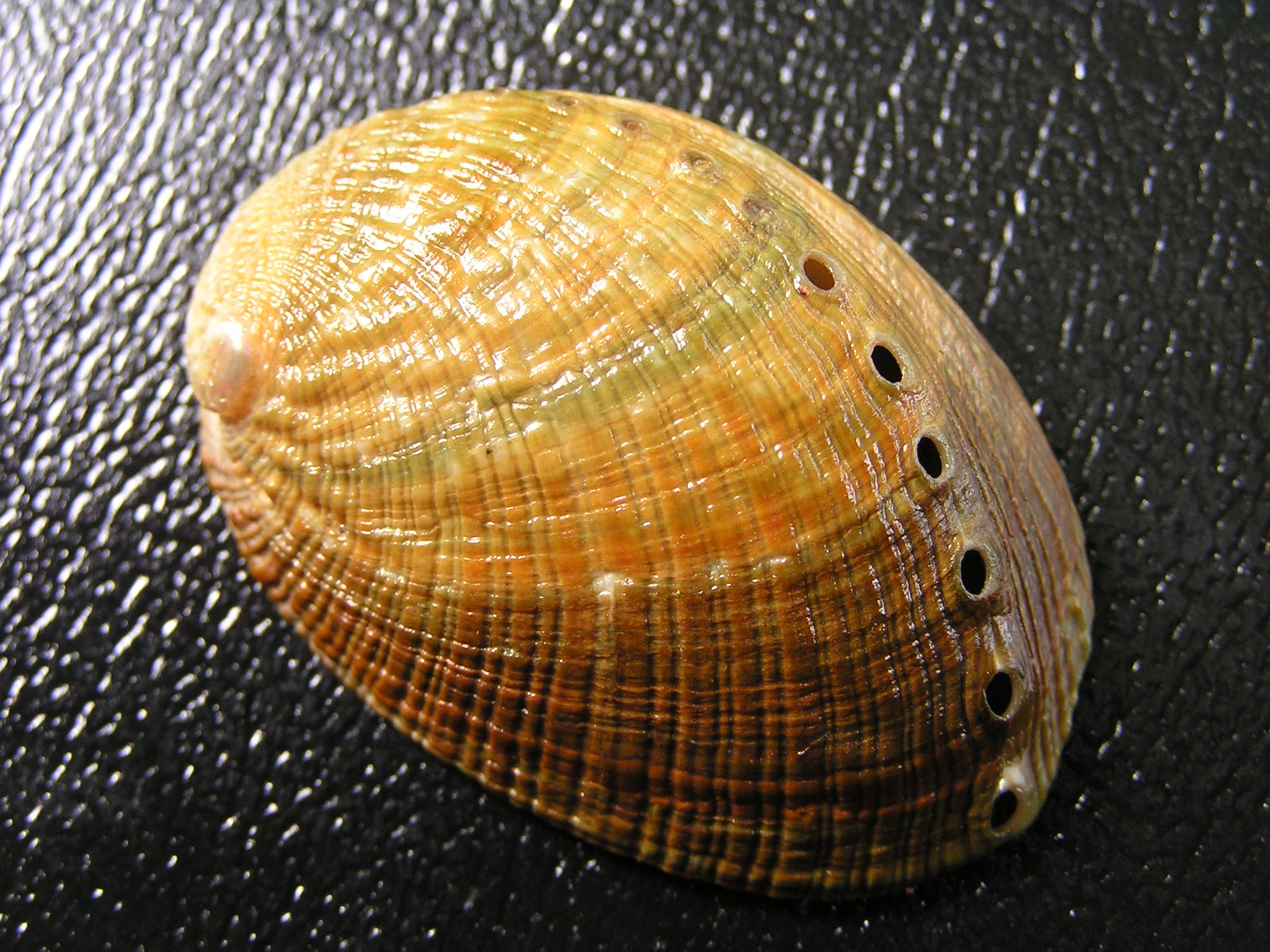 Dorsal view of a shell of Haliotis walallensis